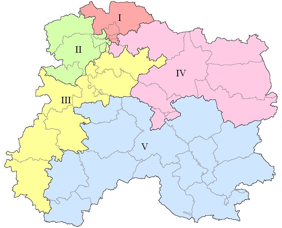 Map of Marne's constituencies (since 2012)